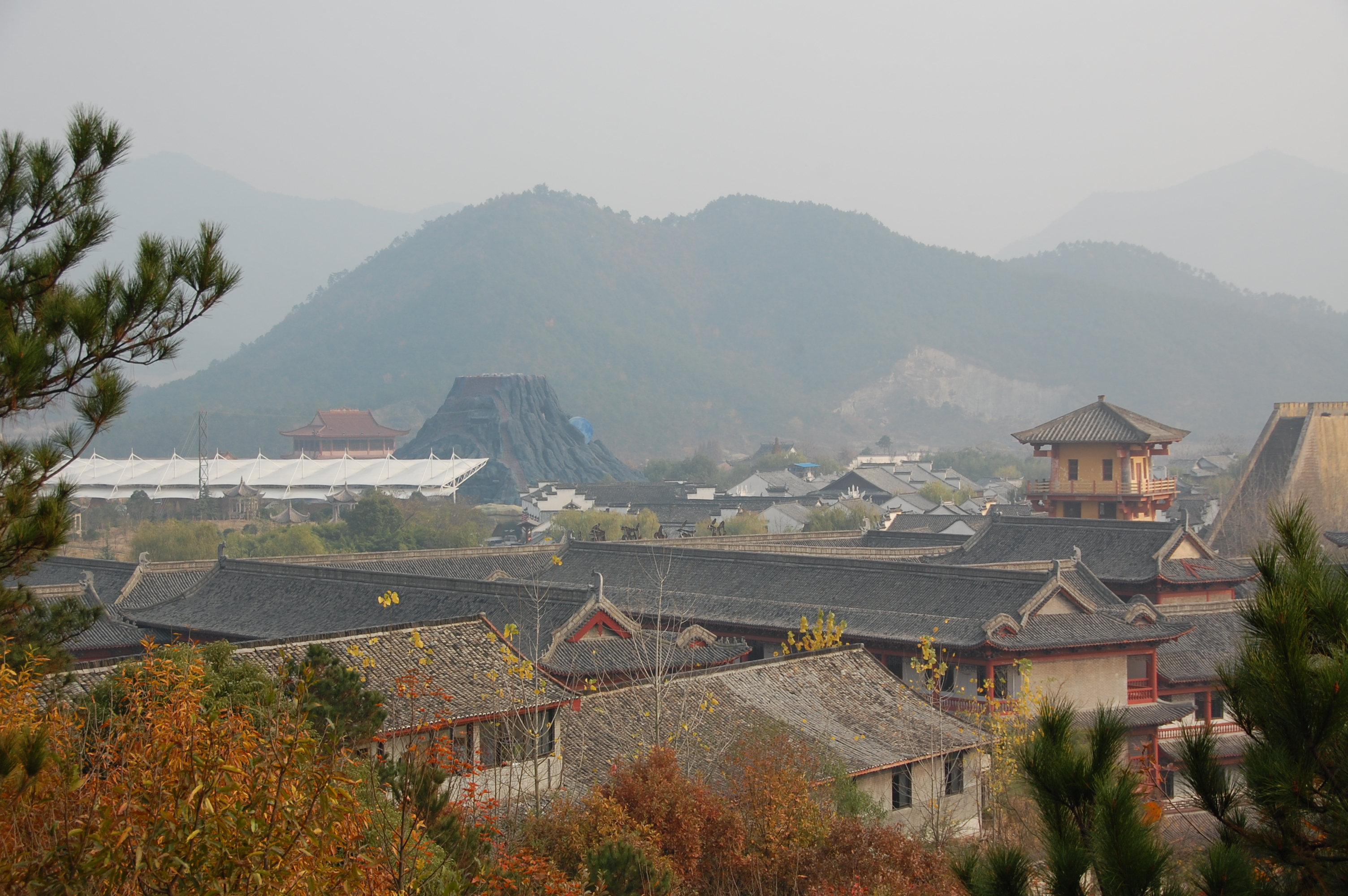 A view of Hengdian World Studios in Zhejiang, China